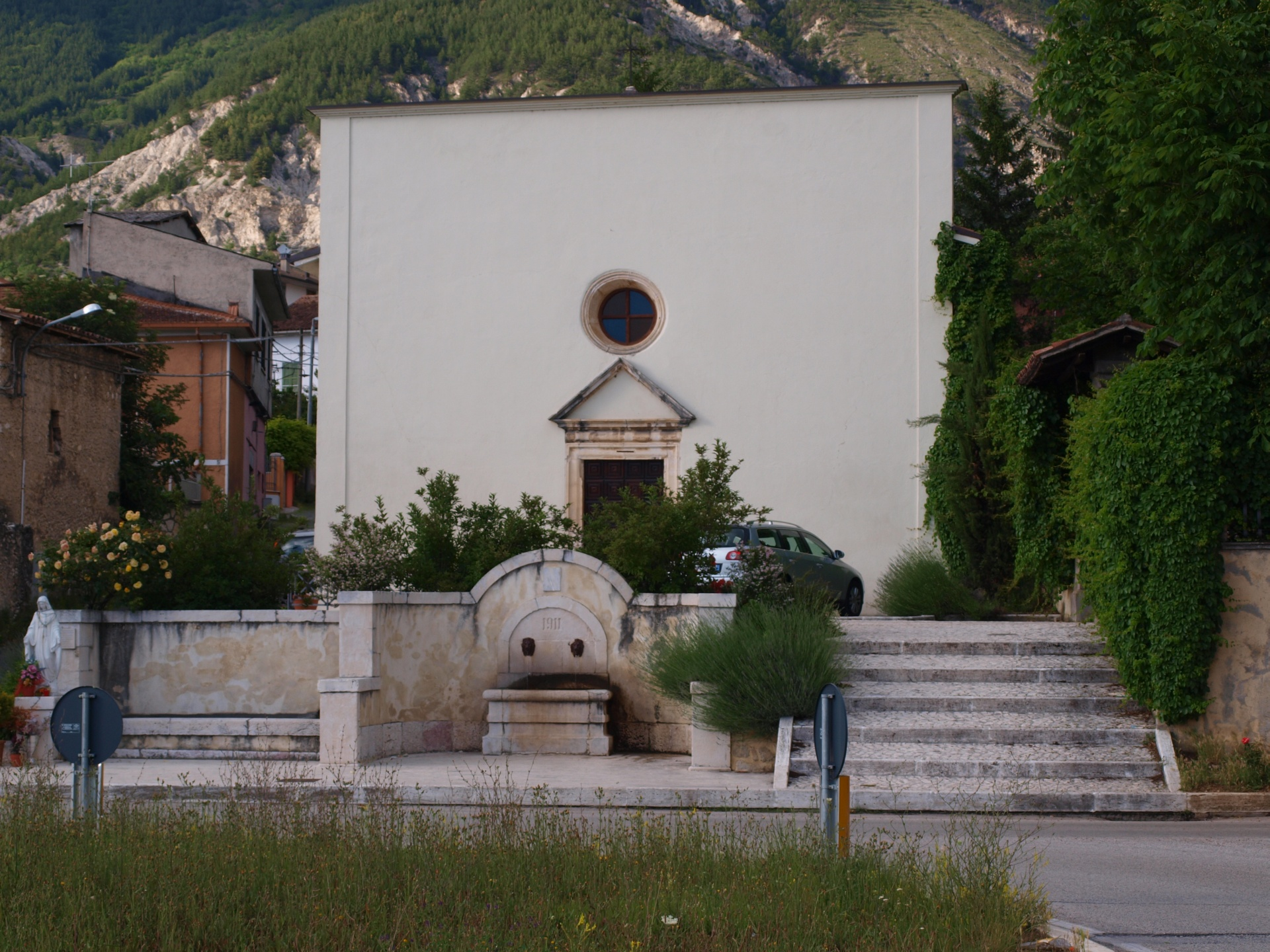 Church of Saint Matthew Evangelist (San Matteo) in town Pizzoli, XV century. Parish of Saint Stephen the First Martyr (province L'Aquila, Abruzzo region, Italy)